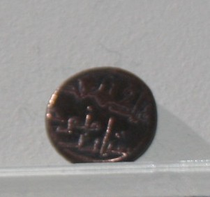 Copper fulus of Shirvanshah I Ahsitan